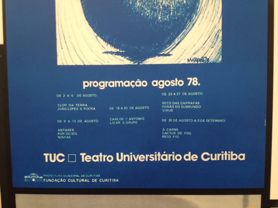 Promotional poster of 'Nossa Gente Nova' festival (1978) in TUC (Teatro Universitário de Curitiba, University Theater of Curitiba), Curitiba, Paraná, Brazil. This specific poster announces presentations during August: Flor da Terra, João Lopes & Rocha, Antares, Pôr do Sol, Nymphas (Grupo Nymphas), Carlos & Antônio, Licar & Grupo, Beco das Garrafas, Porão do Submundo, Vírus, A Carne, Cactus de Fog and Meio Fio. I do not own the rights to the contents of the poster but I took the photo during the cultural exhibition entitled 'FUNDAÇÃO CULTURAL EM CARTAZ - Mais de 40 anos de história' in Curitiba, Paraná, Brazil. This is the same poster as File:Nossa Gente Nova 1978.jpg.